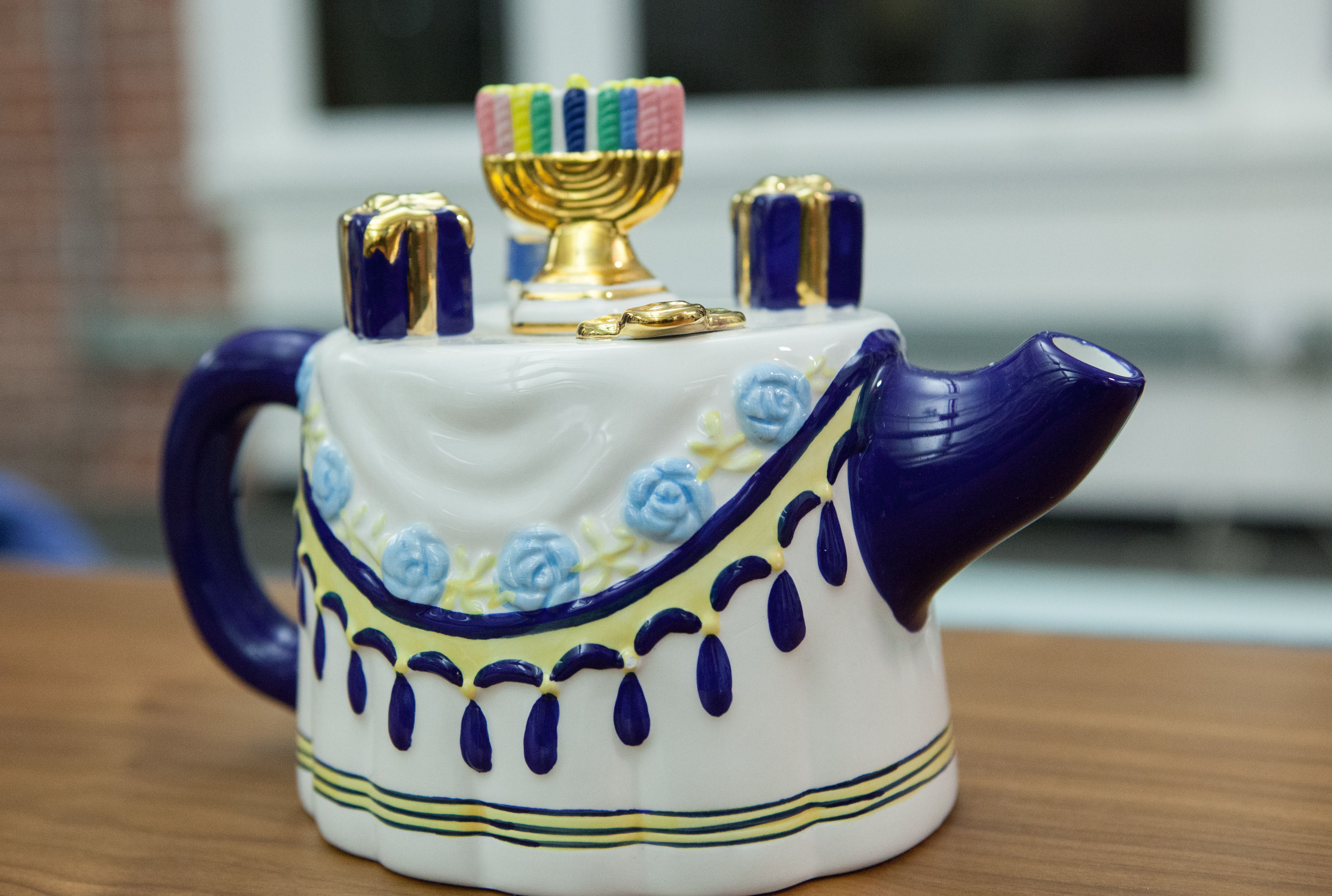 A teapot from the collection of Debra Heaphy, decorated with a Hanukkah menorah on top.